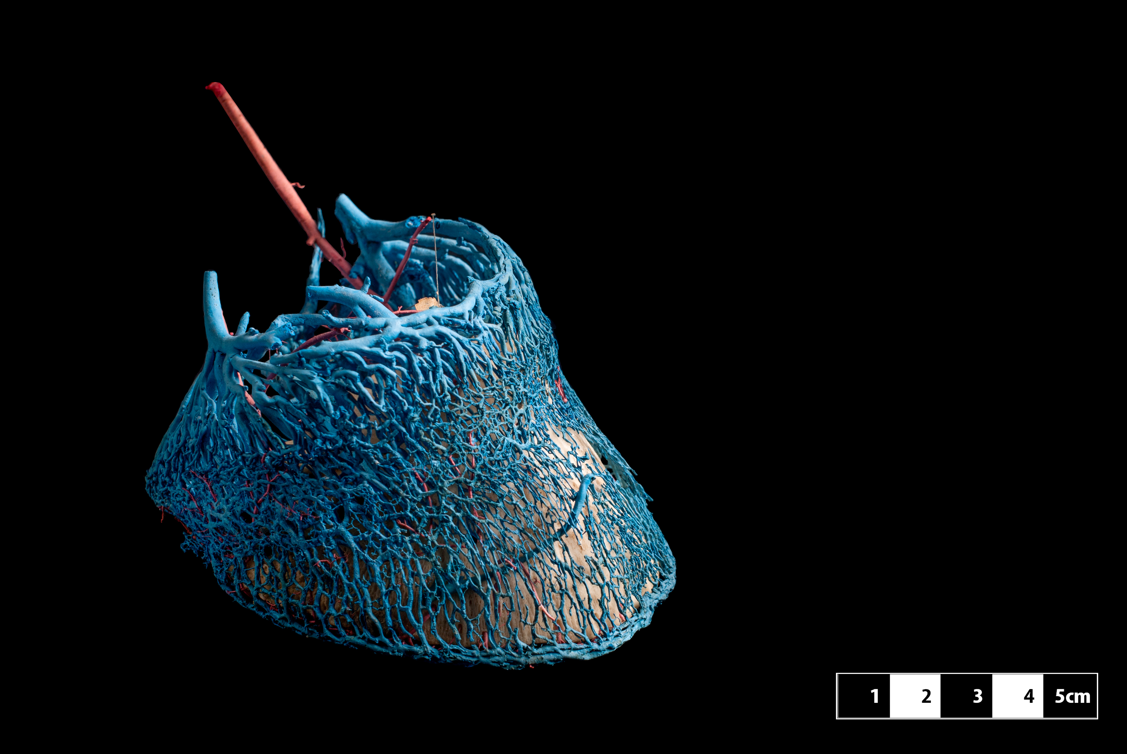 Horse hoof. Equus Technique of vinylite and corrosion. Allow the visualization of the vascular architecture of the body. Specimen on display at the Museum of Veterinary Anatomy FMVZ USP. This file was published as the result of a partnership between the Museum of Veterinary Anatomy FMVZ USP, the RIDC NeuroMat and the Wikimedia Community User Group Brasil. This GLAM project is reported. Photography: Museum of Veterinary Anatomy FMVZ USP. Author: Wagner Souza e Silva.